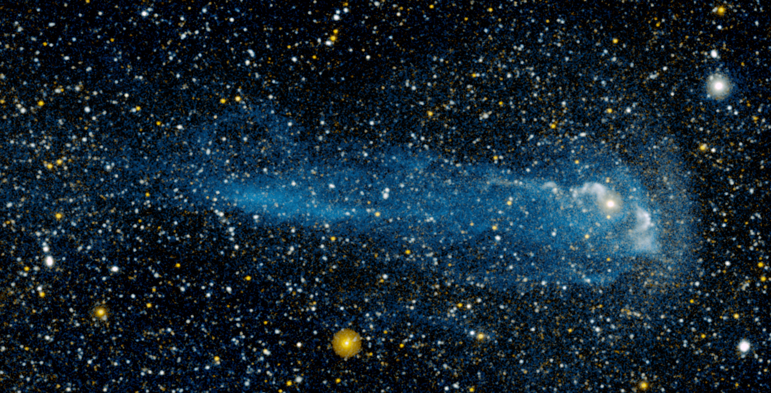 A close-up view of a star racing through space faster than a speeding bullet can be seen in this image from NASA's Galaxy Evolution Explorer. The star, called Mira (pronounced My-rah), is traveling at 130 kilometers per second, or 291,000 miles per hour. As it hurls along, it sheds material that will be recycled into new stars, planets and possibly even life. In this image, Mira is moving from left to right. It is visible as the pinkish dot in the bulb shape at right. The yellow dot below is a foreground star. Mira is traveling so fast that it's creating a bow shock, or build-up of gas, in front of it, as can be seen here at right. Like a boat traveling through water, a bow shock forms ahead of the star in the direction of its motion. Gas in the bow shock is heated and then mixes with the cool hydrogen gas in the wind that is blowing off Mira. This heated hydrogen gas then flows around behind the star, forming a wake. Why is the wake of material glowing? When the hydrogen gas is heated, it transitions into a higher-energy state, which then loses energy by emitting ultraviolet light Ð a process called fluorescence. The Galaxy Evolution Explorer has special instruments that can detect this ultraviolet light. A similar fluorescence process is responsible for the Northern Lights -- a glowing, green aurora that can be seen from northern latitudes. However, in that case nitrogen and oxygen gas are fluorescing with visible light. Streams and a loop of material can also be seen coming off Mira. Astronomers are still investigating what these streams are, but they suspect that they are denser parts of Mira's wind perhaps flowing out of the star's poles. This image consists of data captured by both the far- and near-ultraviolet detectors on the Galaxy Evolution Explorer between November 18 and December 15, 2006. It has a total exposure time of about 3 hours.